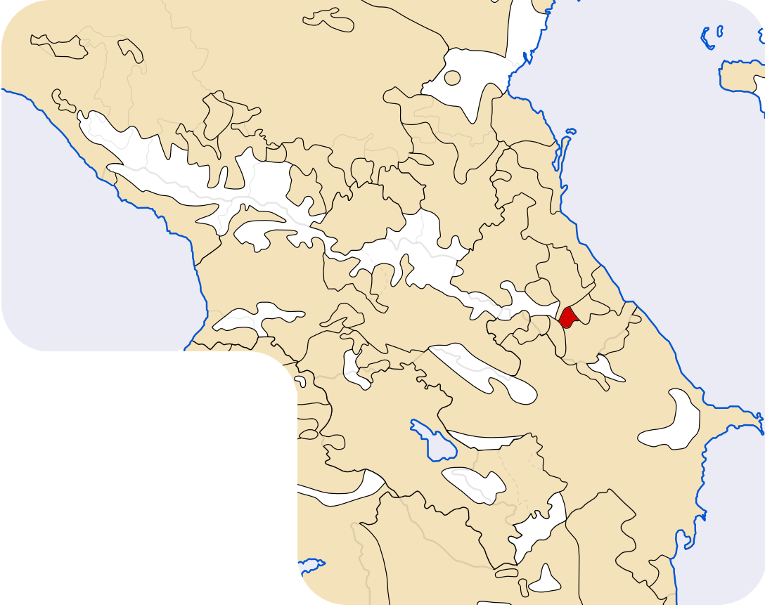 Location map of the Agul people.